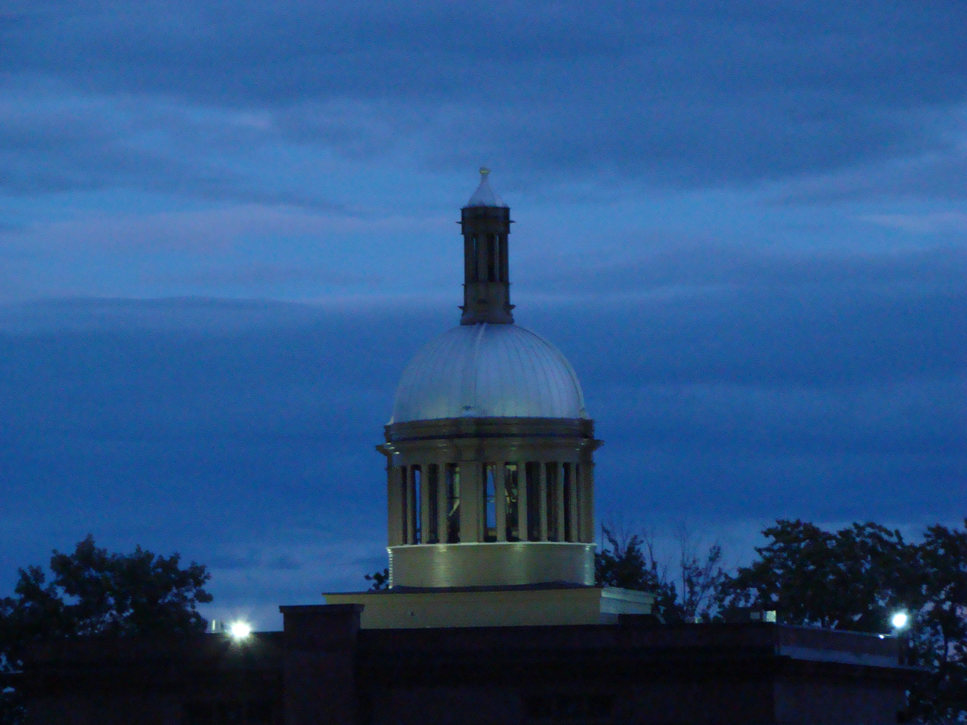 Bayfield County Courthouse